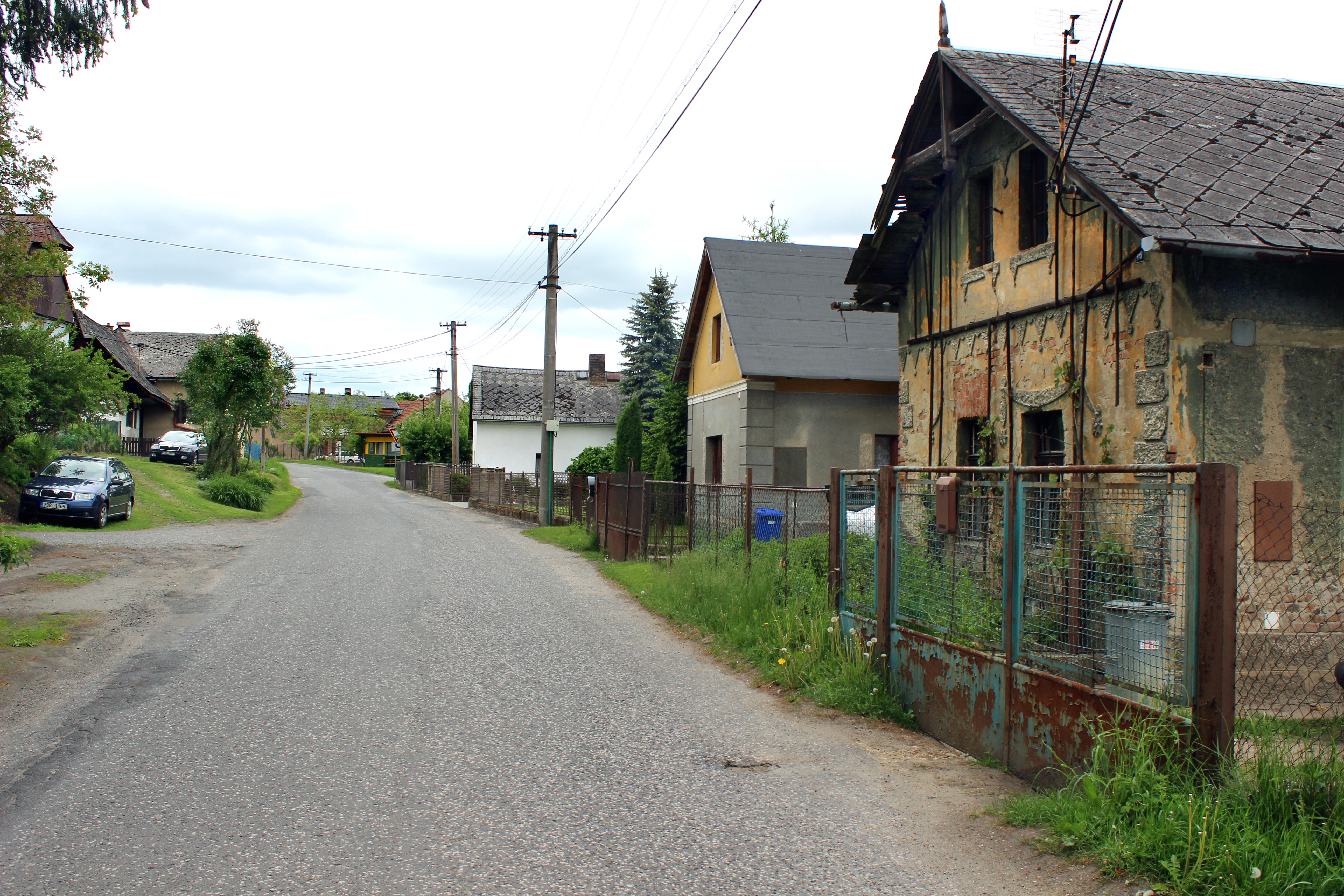 South part of Kovanec, part of Kovanec, Czech Republic